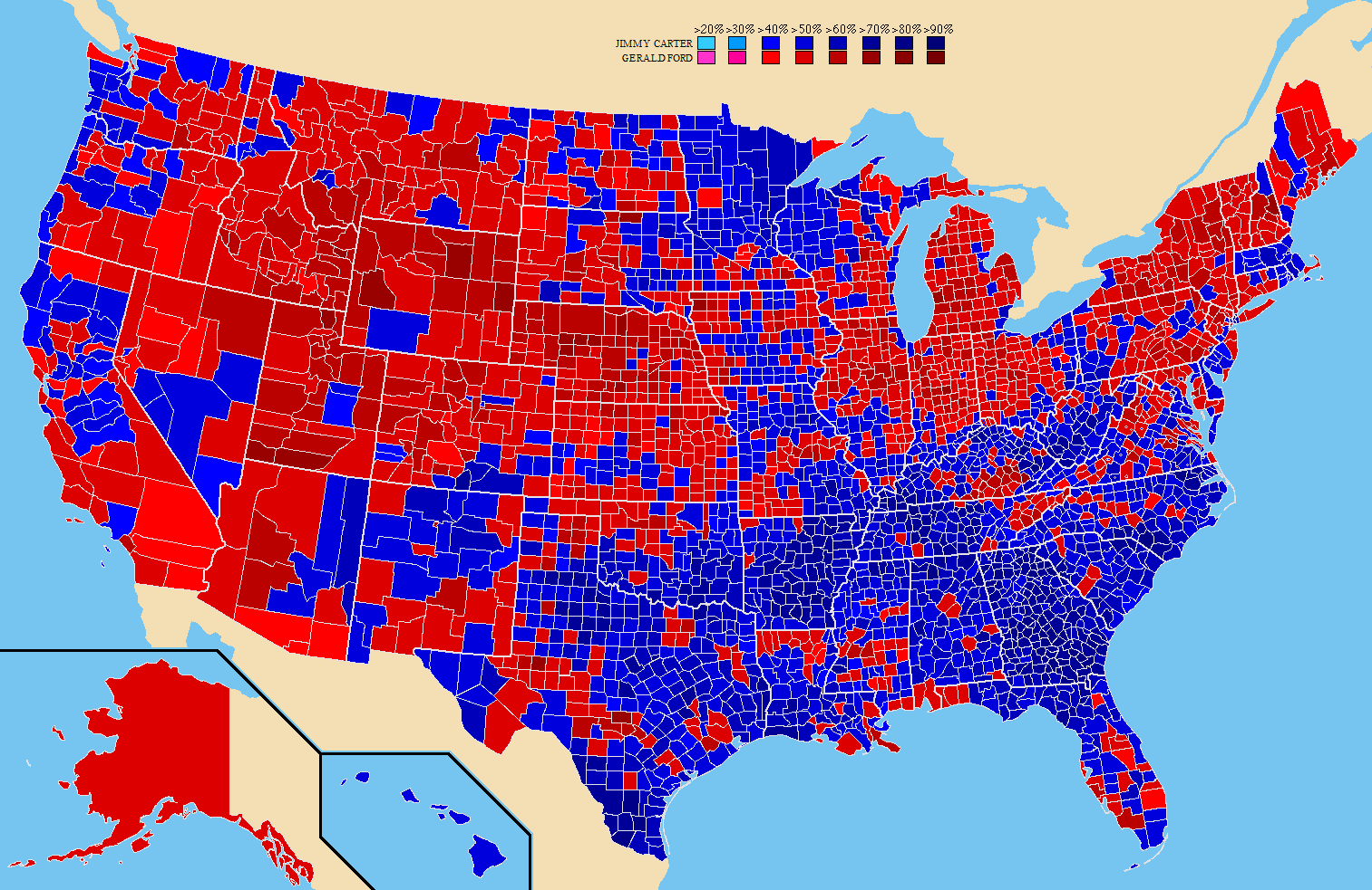 Map showing the results by county of the 1976 United States presidential election specifically identifying the percentage recieved by the winning candidate in each county.